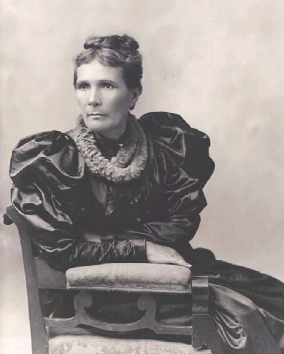 Emma Kaili Metcalf Beckley Nakuina (1847-1929) daughter of Theophilus Metcalf, a civil engineer and sugar planter, and Chiefess Kailikapuolono of Kukaniloko, granddaughter of the legendary Kalanikupaulakea. She was lady-in-wating of Queen Kapiolani. In 1867, she married Frederick William Beckley (1845-1881). Beckley died in 1881, and Emma remarried to the Reverend Moses Kuaea Nakuina (1867-1911) in 1887.